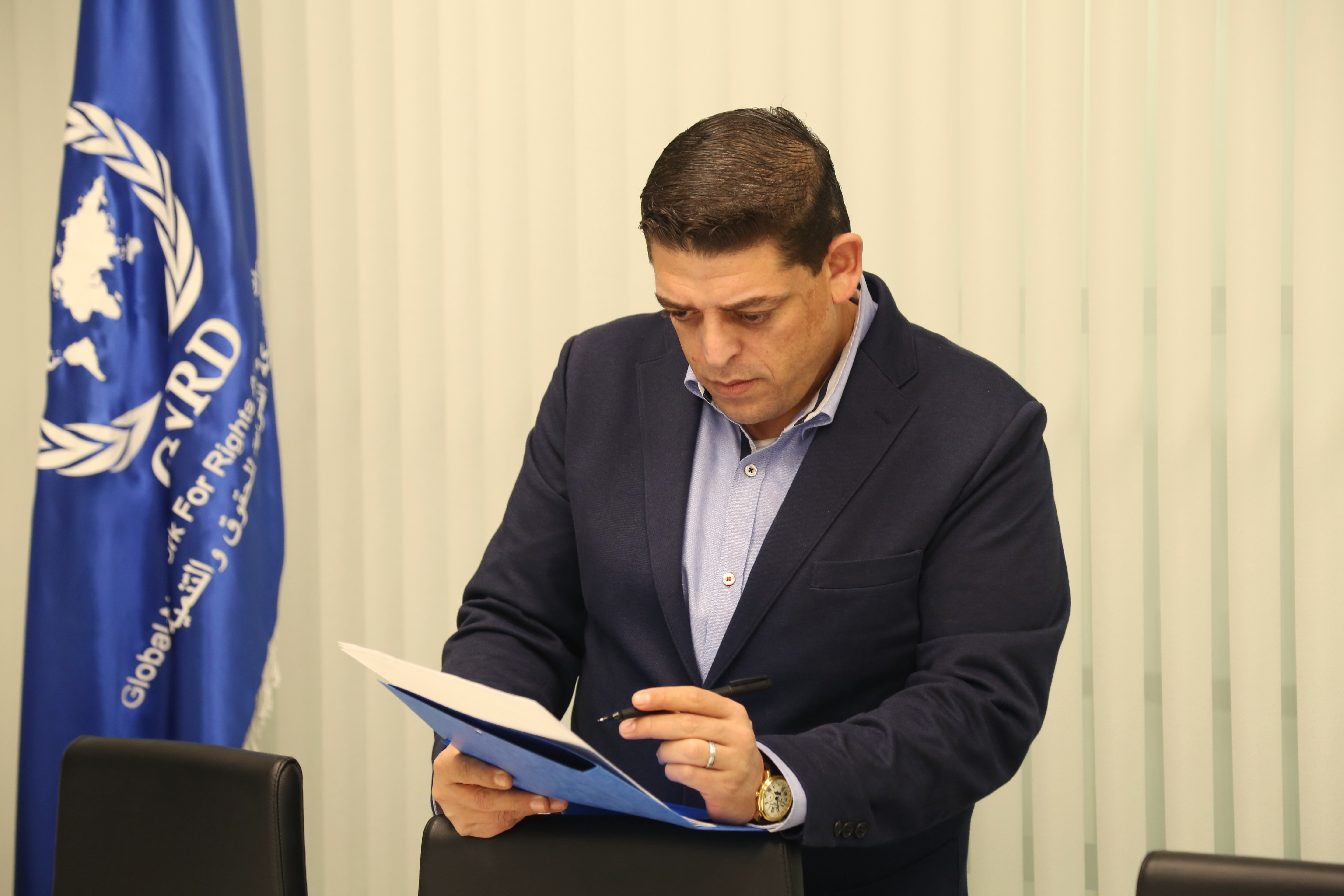 Dr. Loai Deeb Review Projects